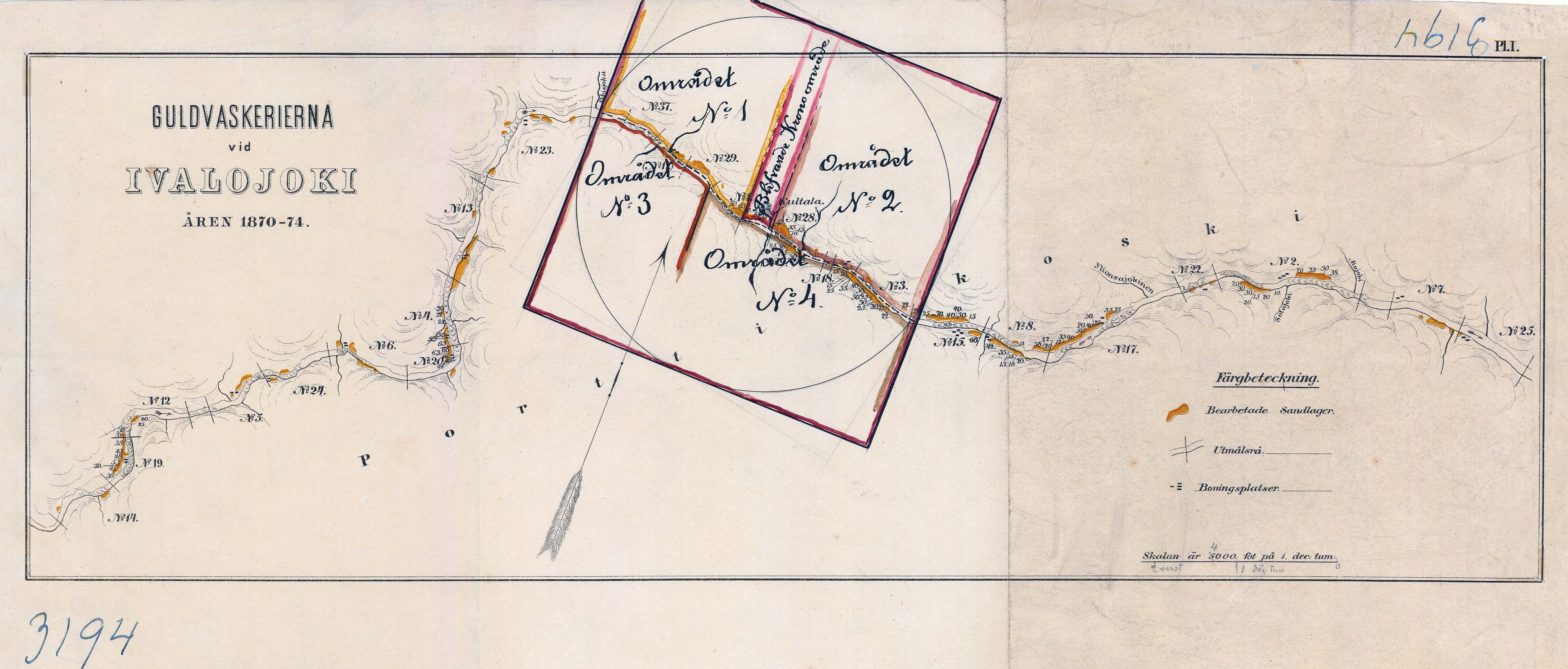 Gold mining claims on the Ivalojoki River, Finland, 1870–1874.